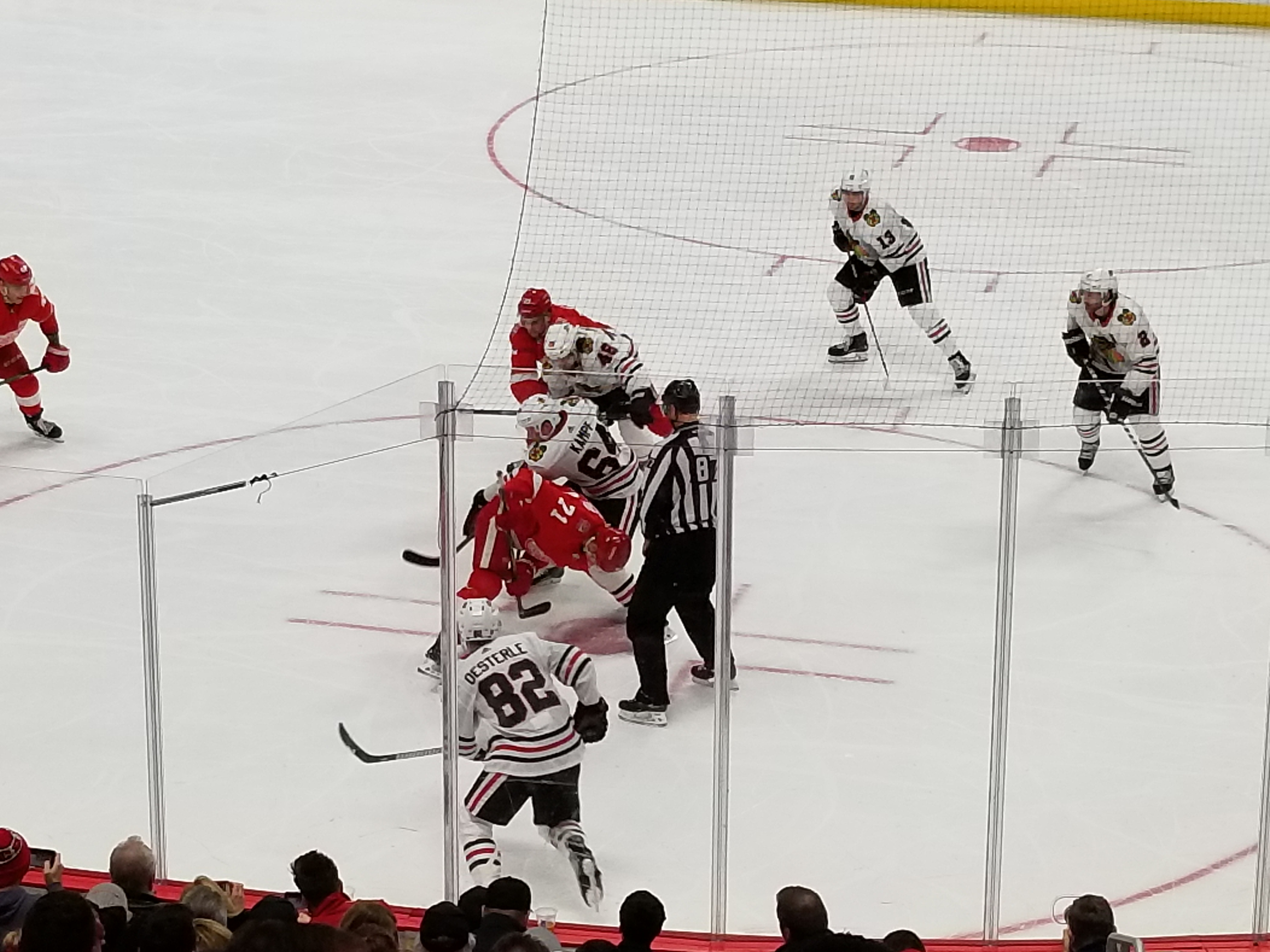 Blackhawks-Redwing